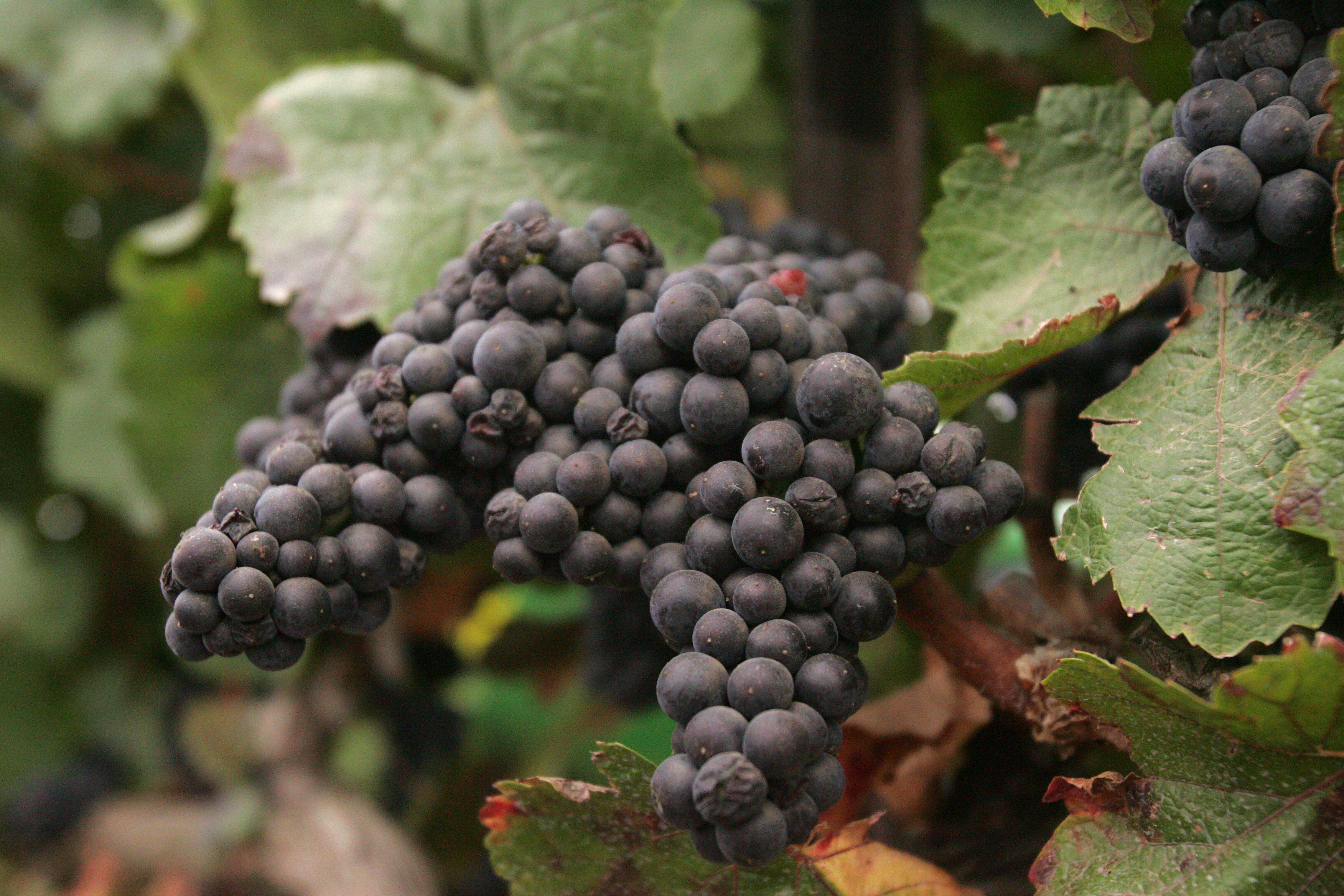 Syrah grapes growing in the Central Coast of California near Soledad.